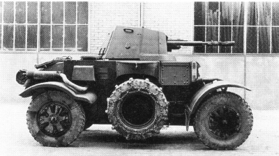 Gendron-SOMUA AMR 39 Third Prototype Side View